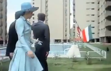 Civil Flag of Iran 1971 (1350), opening celebration of Behjatabad buildings in Tehran